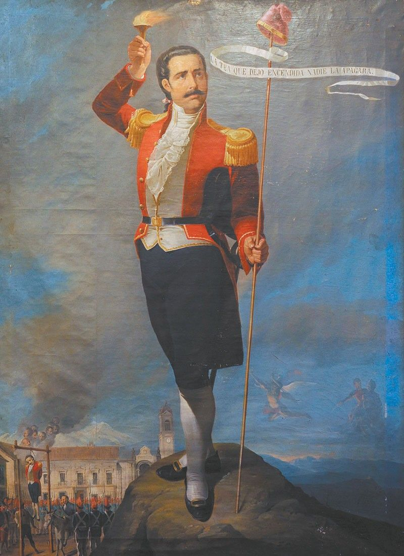 Picture representing the execution of Pedro Domingo Murillo, president of the Junta Tuitiva that tried to become independent from the spanish crown in the Virreinato del Río de la Plata